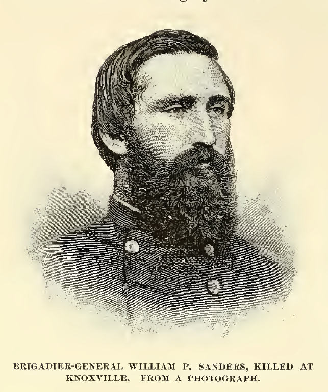 Brig. Gen. William P. Sanders, killed at Knoxville, American Civil War